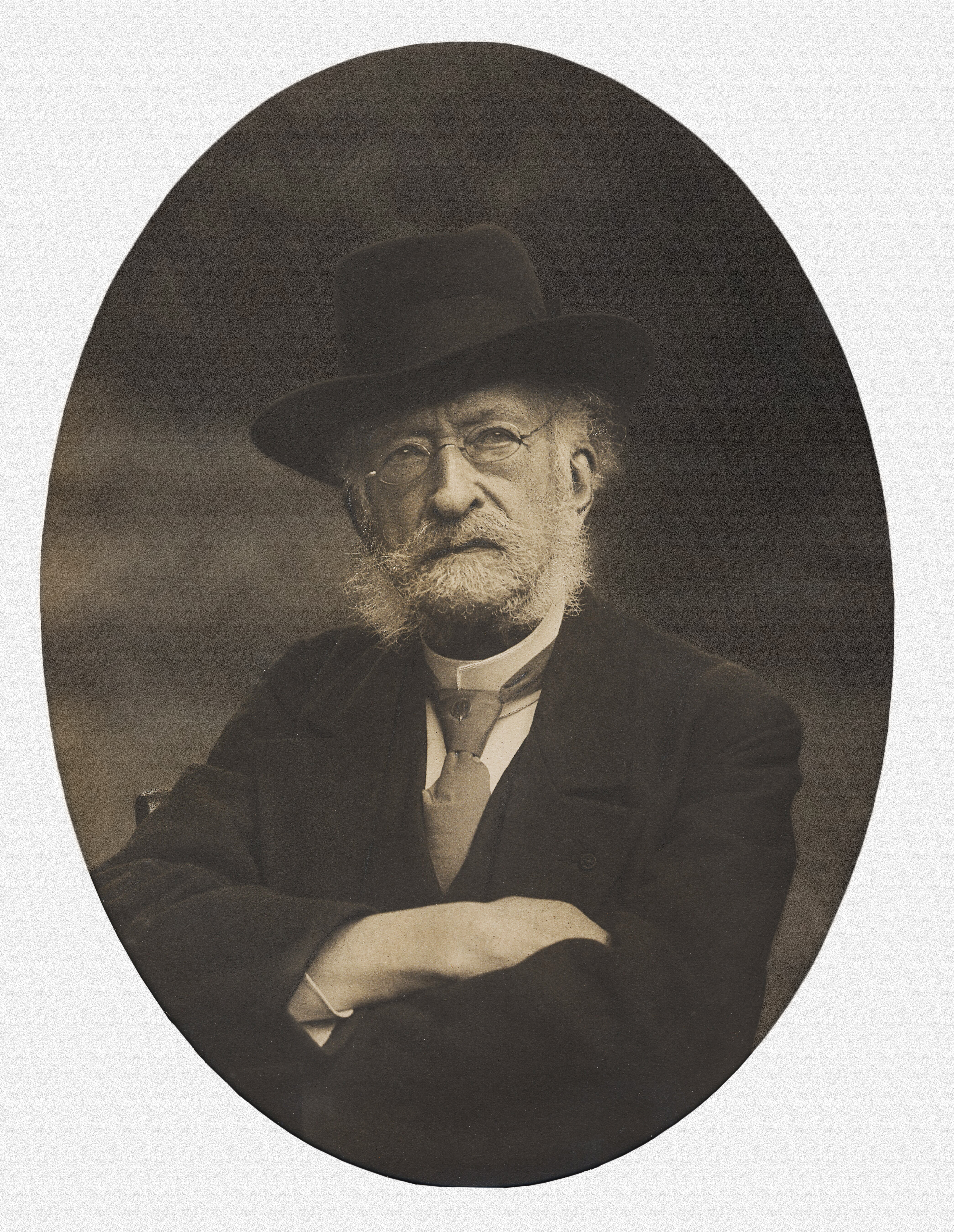 Emile Cartailhac – French prehistorian (1845-1921) Caption of Comte Henri Bégouën backside :« The last photograph of Cartailhac. Shot by Chevalier. May 1921 » Source: Library and Documentation Service Museum of Toulouse